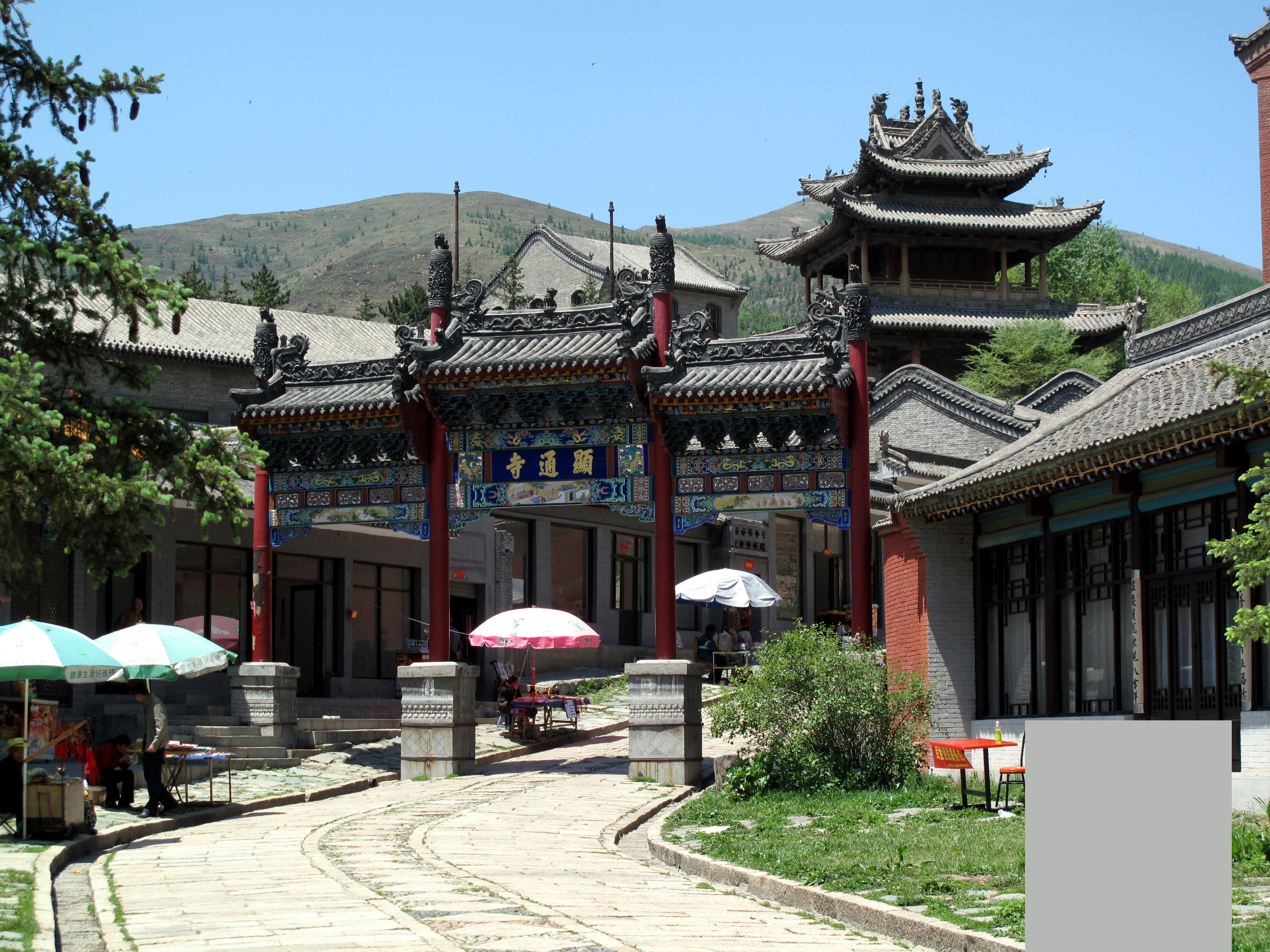 Entrance to the temples of Wu Tai mountain (Wutai Shan). The entrance proceeds from Taihua Monastic Village up to the mountain temples.